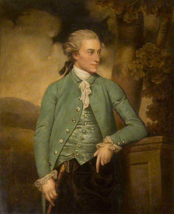 unknown artist (has been attributed to John Downman); John Mortlock (1755-1816), Mayor of Cambridge 13 Times. Located in The Guildhall, Cambridge, England